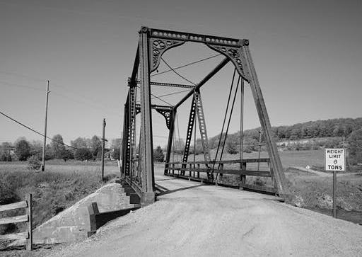 Wells Creek Bollman Bridge near Meyersdale, Pennsylvania, portal view of bridge looking southeast. Cropt from an Historic American Engineering Record photograph by Jet Lowe (No. HAER PA,56-MEYER.V,2-4), taken in 1992. [1] This bridge is currently being dismantled in order to be moved onto the Allegheny Highland Ex-Western Maryland Railroad bed, Hiking and biking trail.